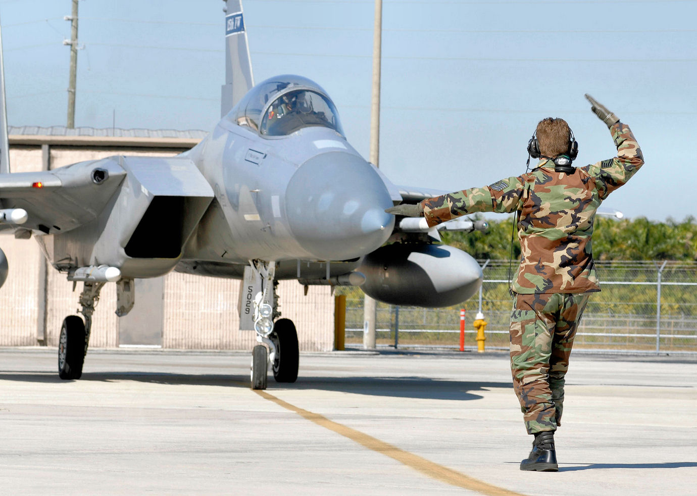 Tech. Sgt. Aaron Hartley of the Florida Air National Guard's Det. 1, 125th Fighter Wing, guides an F-15 Eagle Fighter Wing on the flightline at Homestead Air Reserve Base, Fla., Feb. 5, 2009. Photo by Tech. Sgt. Thomas Kielbasa